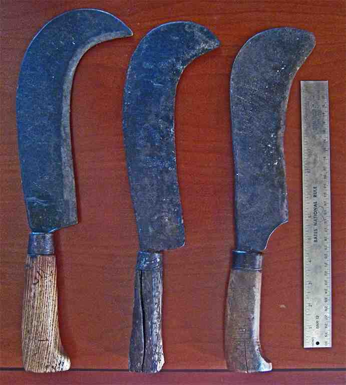 Handbills the property of me (Peotrovitch) and photograph by me. 3 Kentish handbills (locally also called "Brishing Hooks"). Dating from circa 1900, each showing signs of wear. Newest to left, the best to use center, and a complete dog to right.